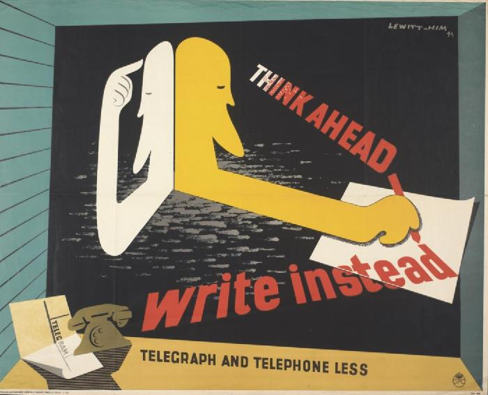 Think Ahead whole: the title and image are integrated, set against a black background and held within an irregular rectangular frame. image: two stylized heads, positioned at right angles to one another, with one writing and one thinking. A telegram and telephone are placed on the frame in the lower left corner. text: LEWITT-HIM 44 THINK AHEAD write instead TELEGRAPH AND TELEPHONE LESS GPO PRINTED FOR H.M.STATIONERY OFFICE BY ST. MICHAEL'S PRESS L.T.D LONDON. 51-921 P.R.D. 388